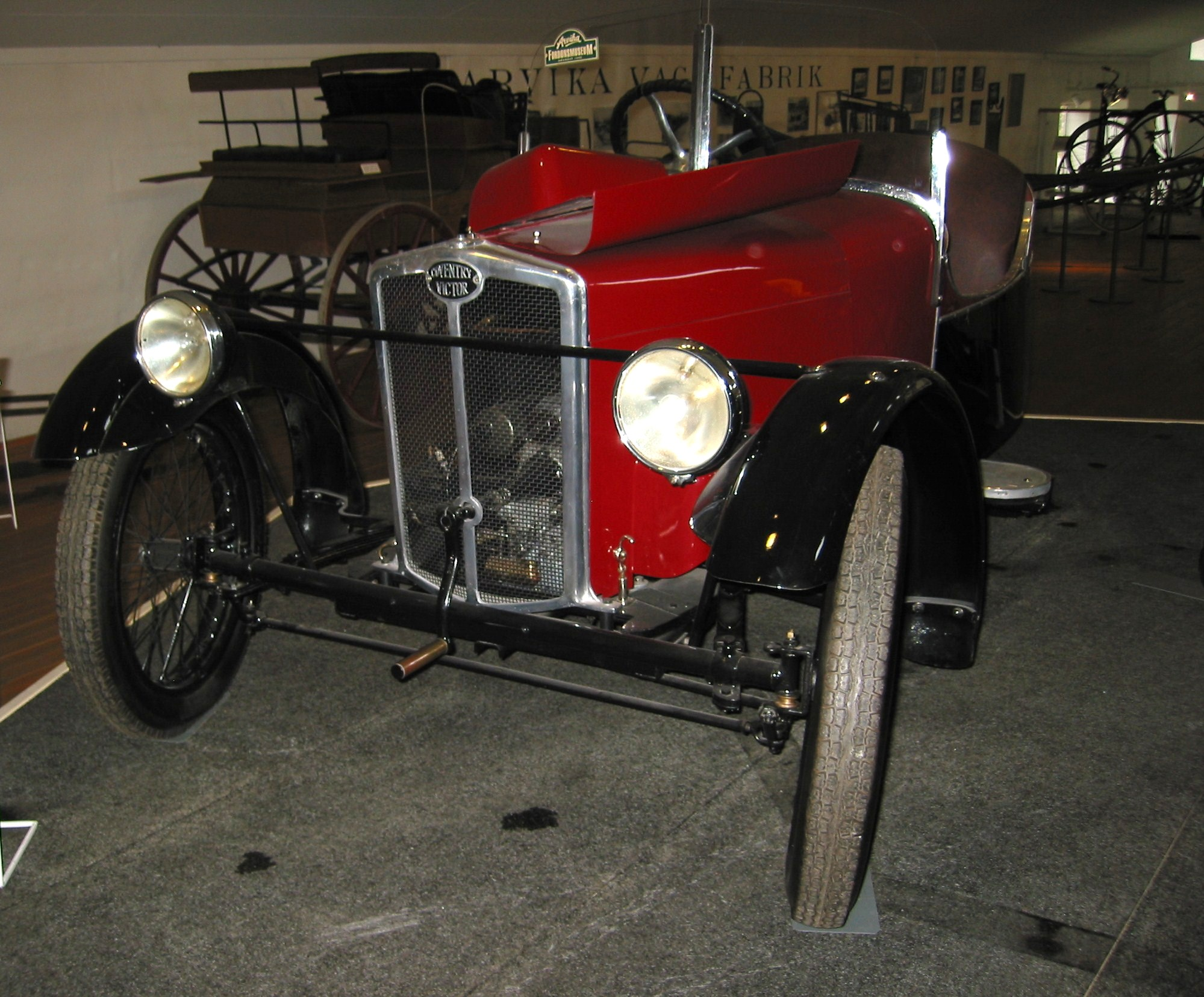 Coventry-Victor 1933